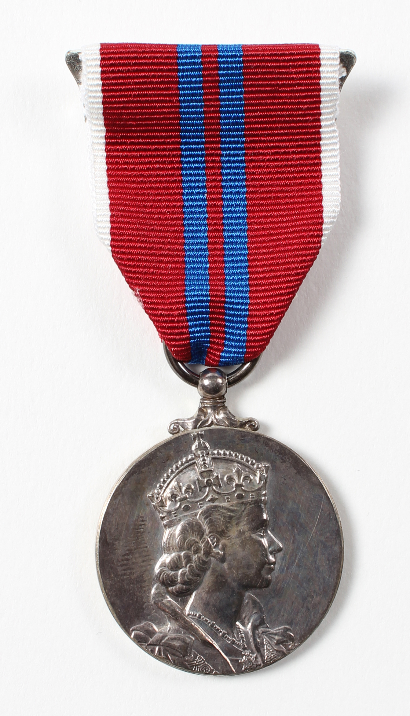 The Coronation Medal 1953 In Royal Mint card box of issue Rim impressed- Mount Everest Expedition